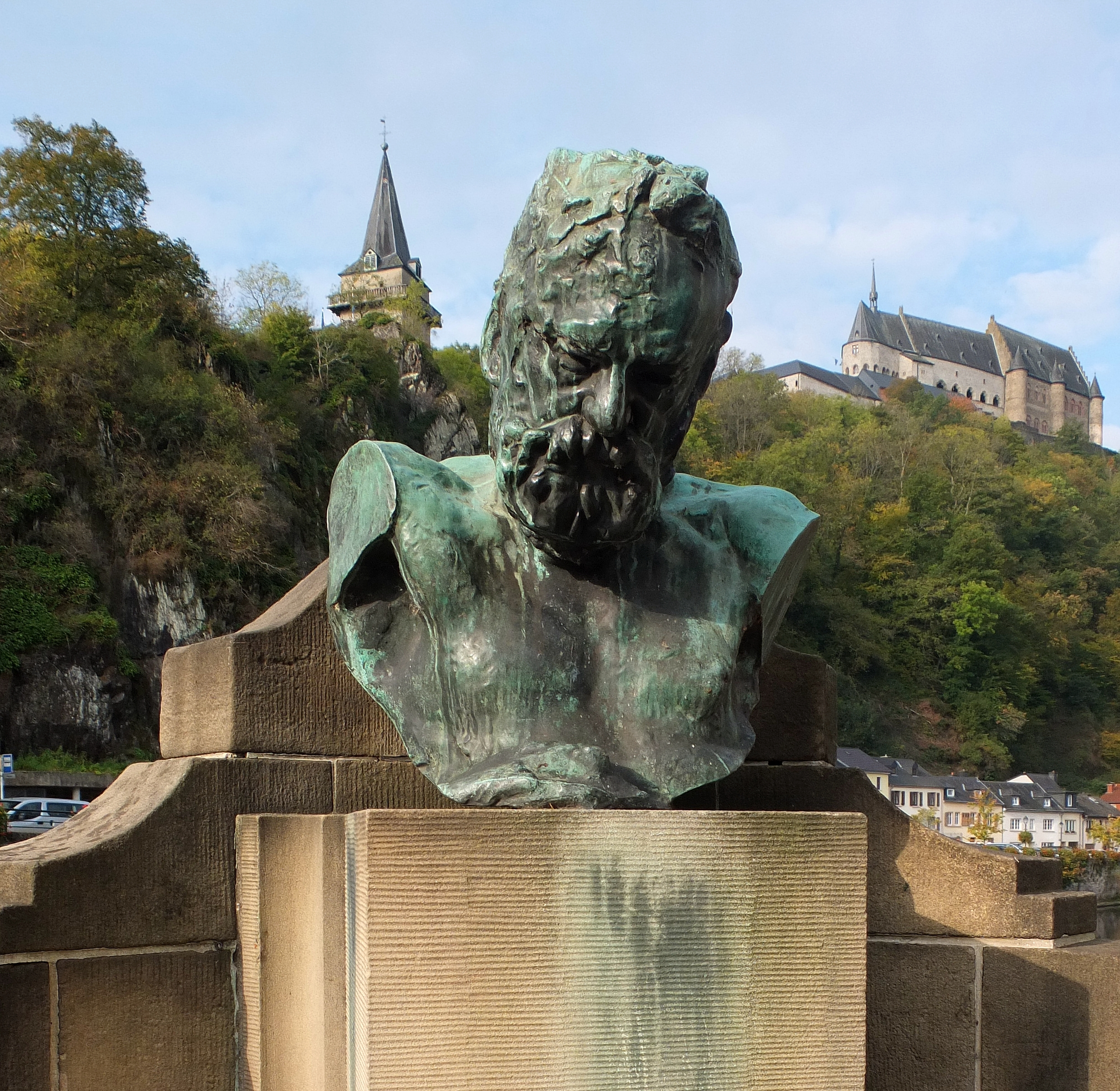 Bust of Victor Hugo in Vianden, Luxembourg. After a bronze sculpture by Auguste Rodin (1877). Hockelstower (l.) and Vianden Castle (r.) in the background.